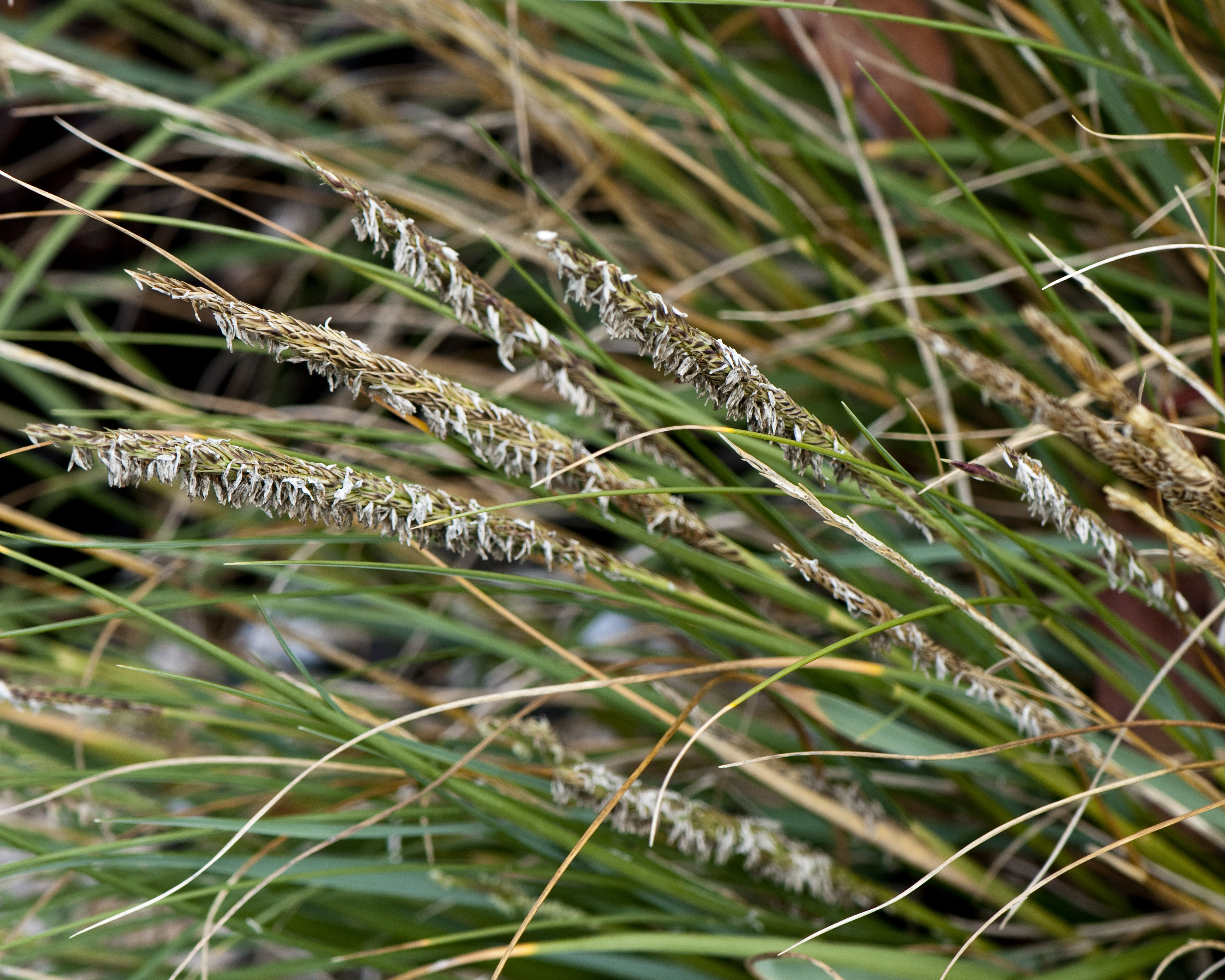 Surveying for Invasive Spartina in Baynes Sound with Ducks Unlimited, Washington State Department of Agriculture reps and BCMAFF Invasive Species Coordinator